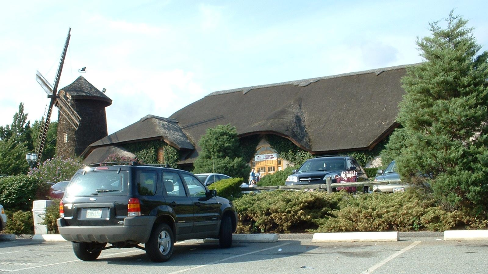 The large Christmas Tree Shops store in Sagamore, Massachusetts. It is well known for its visibility, as it is often the first thing people notice coming across the neighboring Sagamore Bridge.